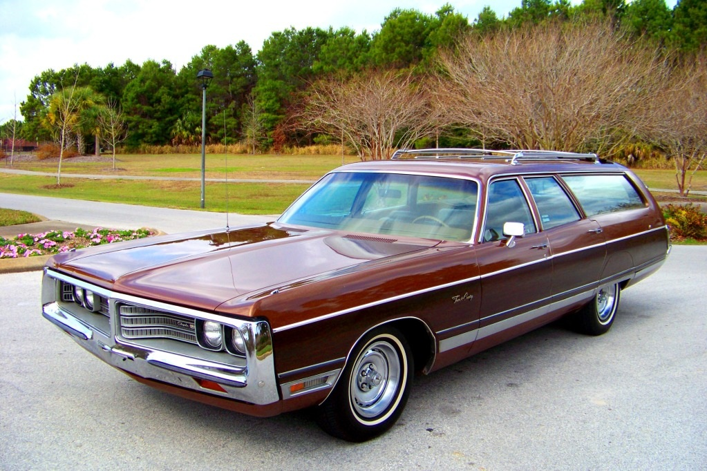 1972 Chrysler Town & Country full-size station wagon